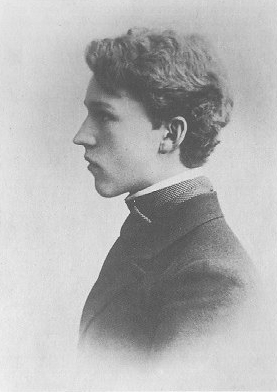 German composer Botho Sigwart (1884-1915) as a young man